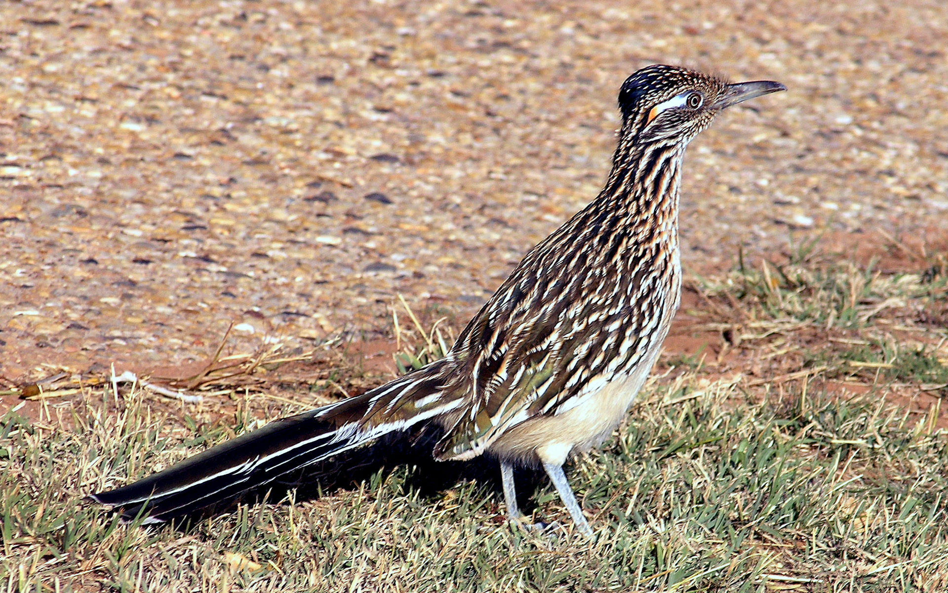 A Great Roadrunner (Geococcyx californianus) in the Caprock Canyons State Park and Trailway along the Caprock in West Texas (USA)